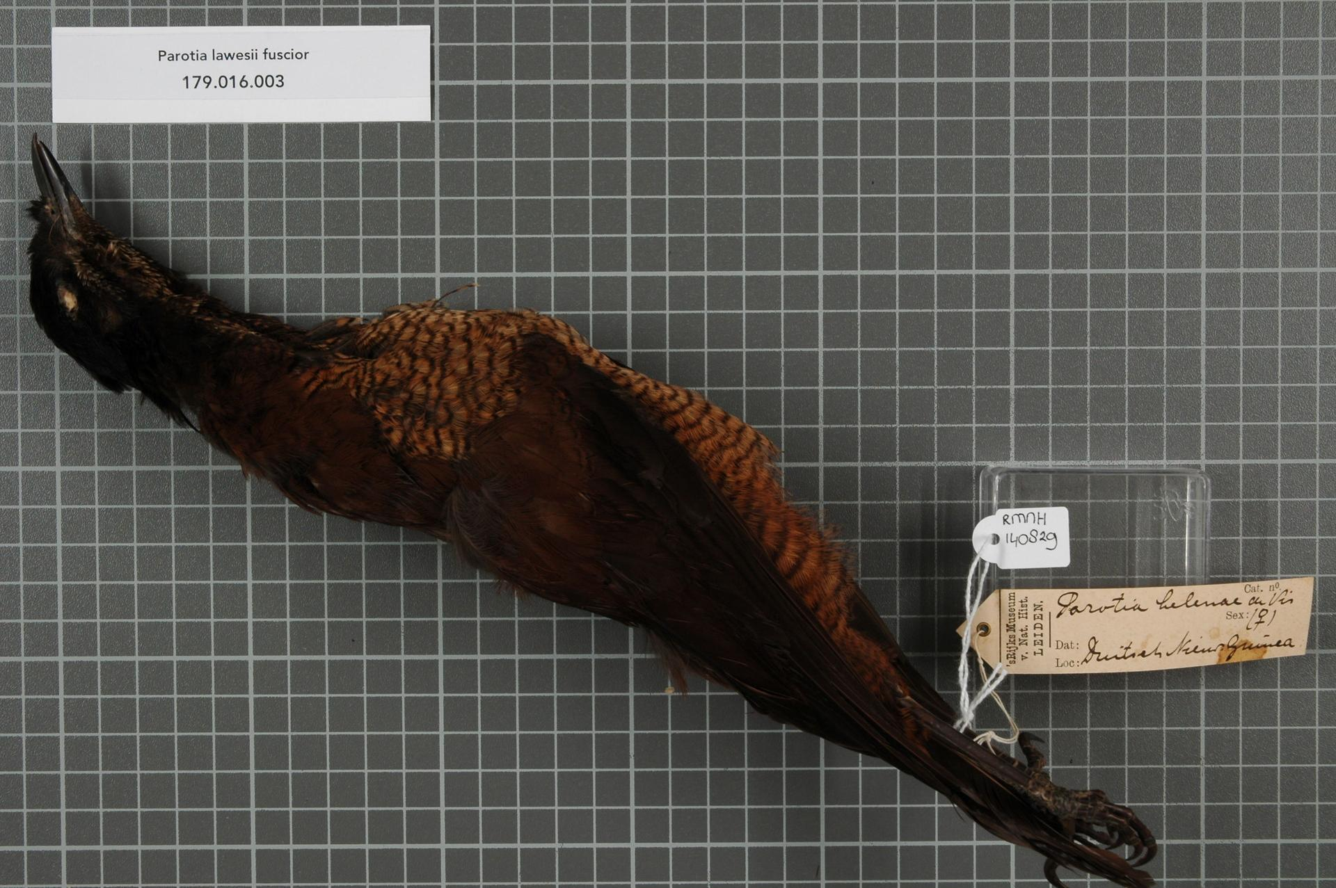 Parotia lawesii fuscior Greenway, 1934